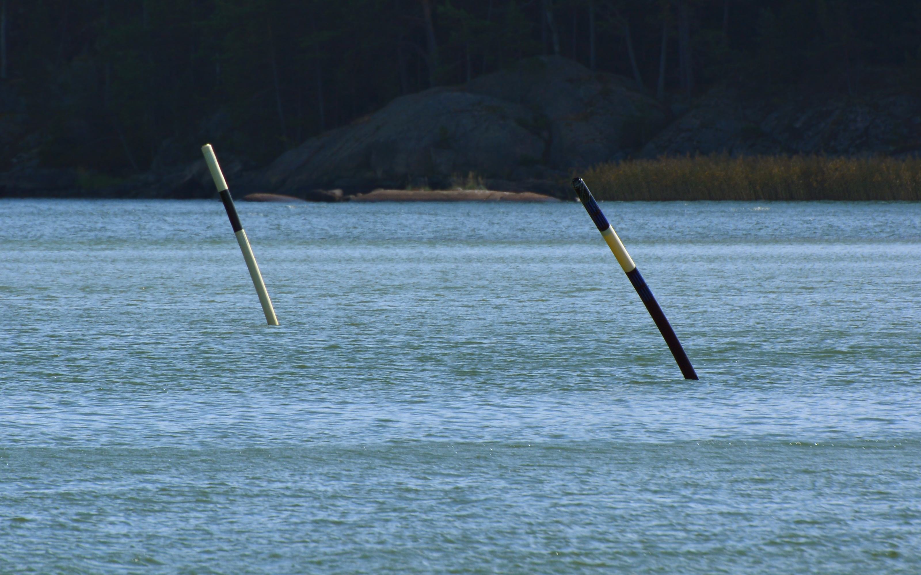 Cardinal marks (west mark and east mark) near Själö, Nagu, Finland.